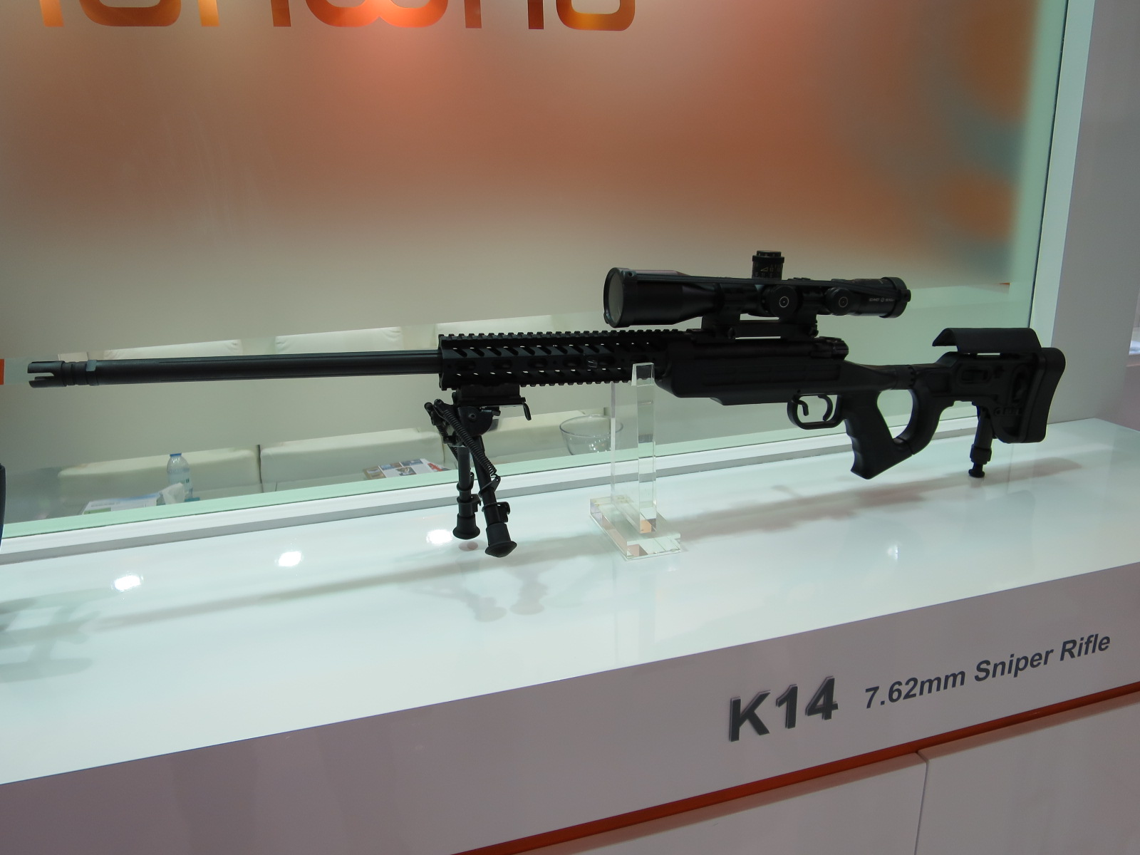 S&T Motiv K14 at IDEX, 24 February 2015